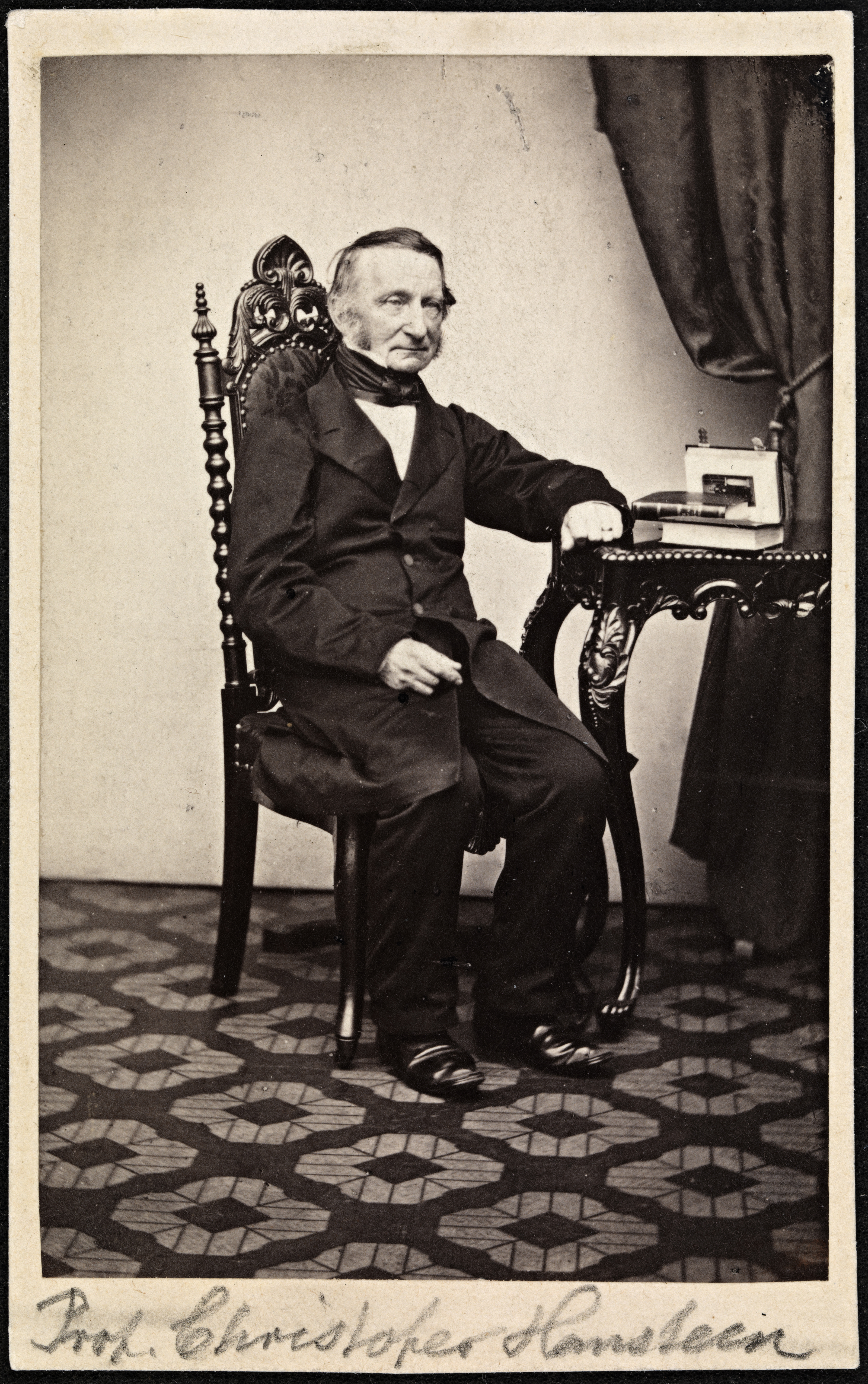 Motiv / Motif: Visittkort / Carte de visite, albuminpapir. Hansteen var astronom og geofysiker. Dato / Date: ca 1862 Fotograf / Photographer: C. C. Wischmann (Christiania) Sted / Place: Oslo Eier / Owner Institution: Nasjonalbiblioteket / National Library of Norway Lenke / Link: Bildesignatur / Image Number: blds_03775